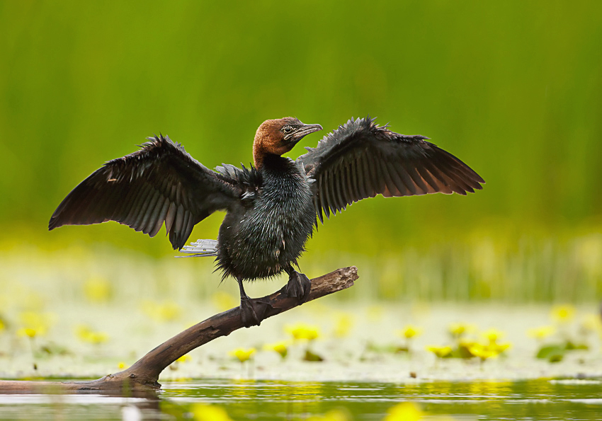 Microcarbo pygmeus, Hortobágy, Hungary